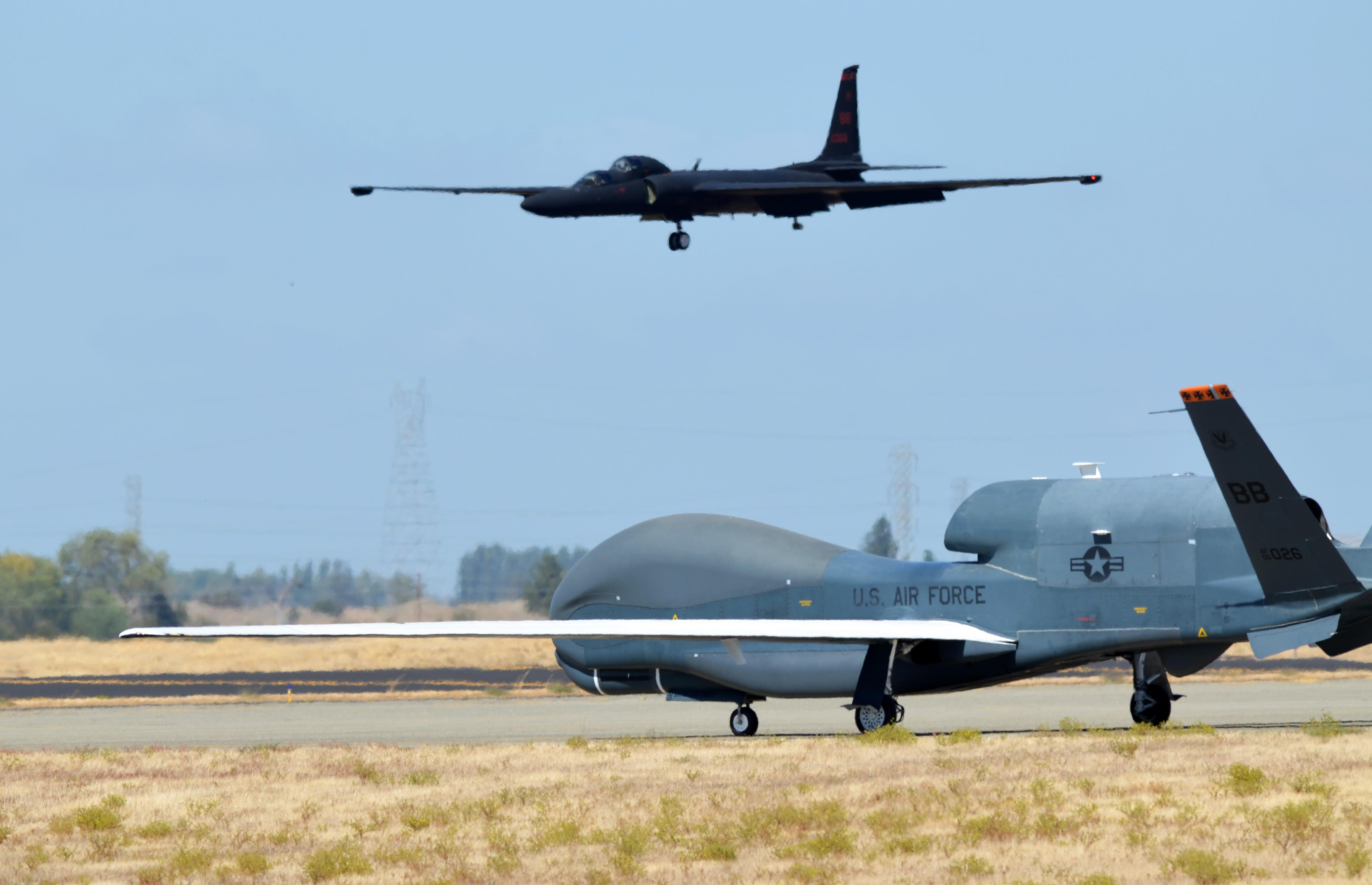 An RQ-4 Global Hawk taxies on the flightline as a U-2 Dragon Lady makes its final approach Sept. 17, 2013, at Beale Air Force Base, Calif. The RQ-4 and U-2 are the Air Force’s primary high-altitude intelligence, surveillance and reconnaissance aircraft. (U.S. Air Force photo by Airman 1st Class Bobby Cummings/Released)